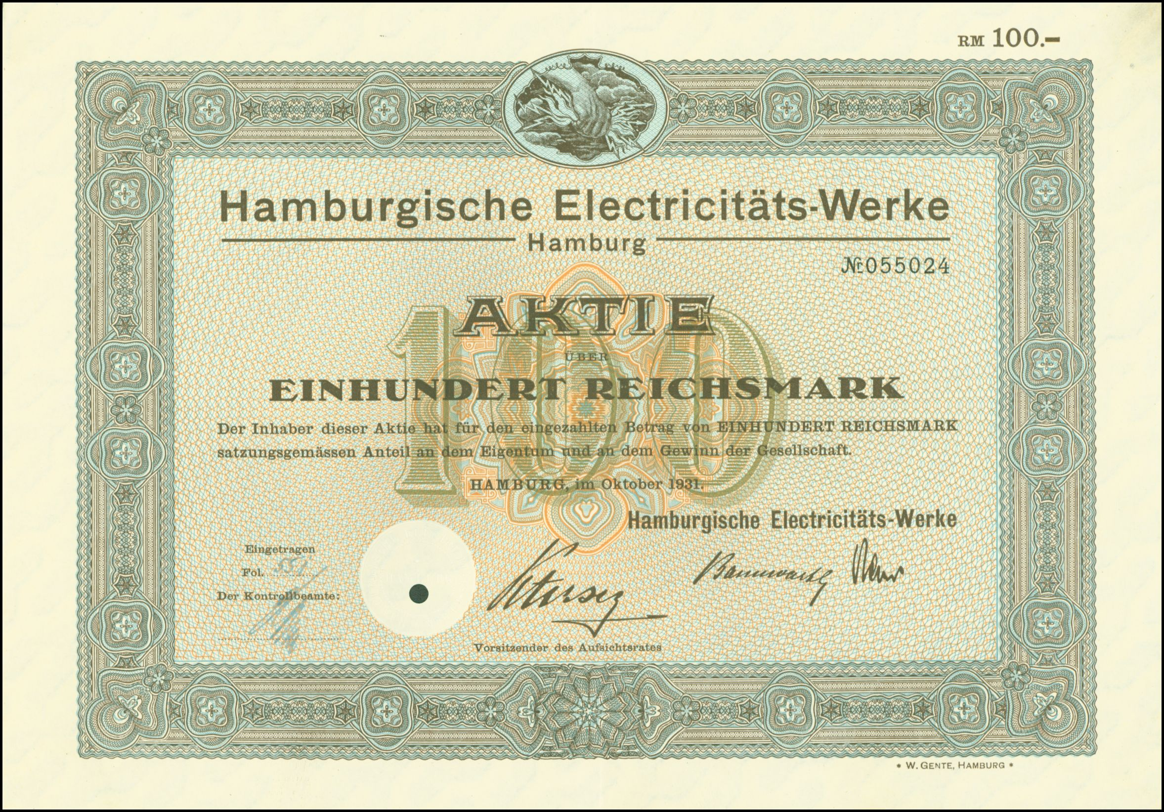 Share of the Hamburger Electrizitäts-Werke, issued 31. October 1931